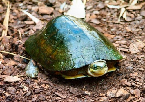 Torsten Blanck